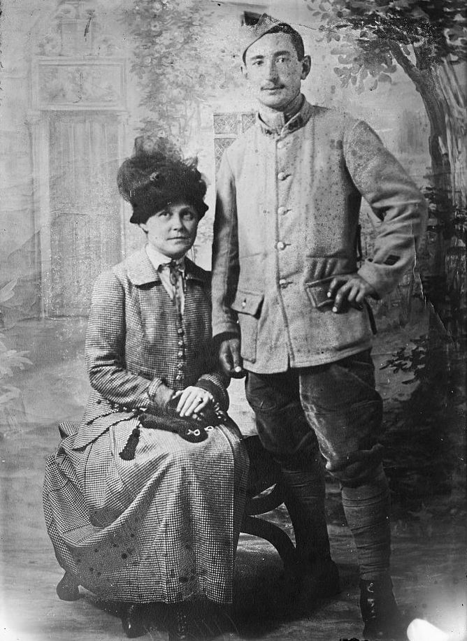 Mrs. Julian La Rose Harris & Marcel Lenoir circa 1917